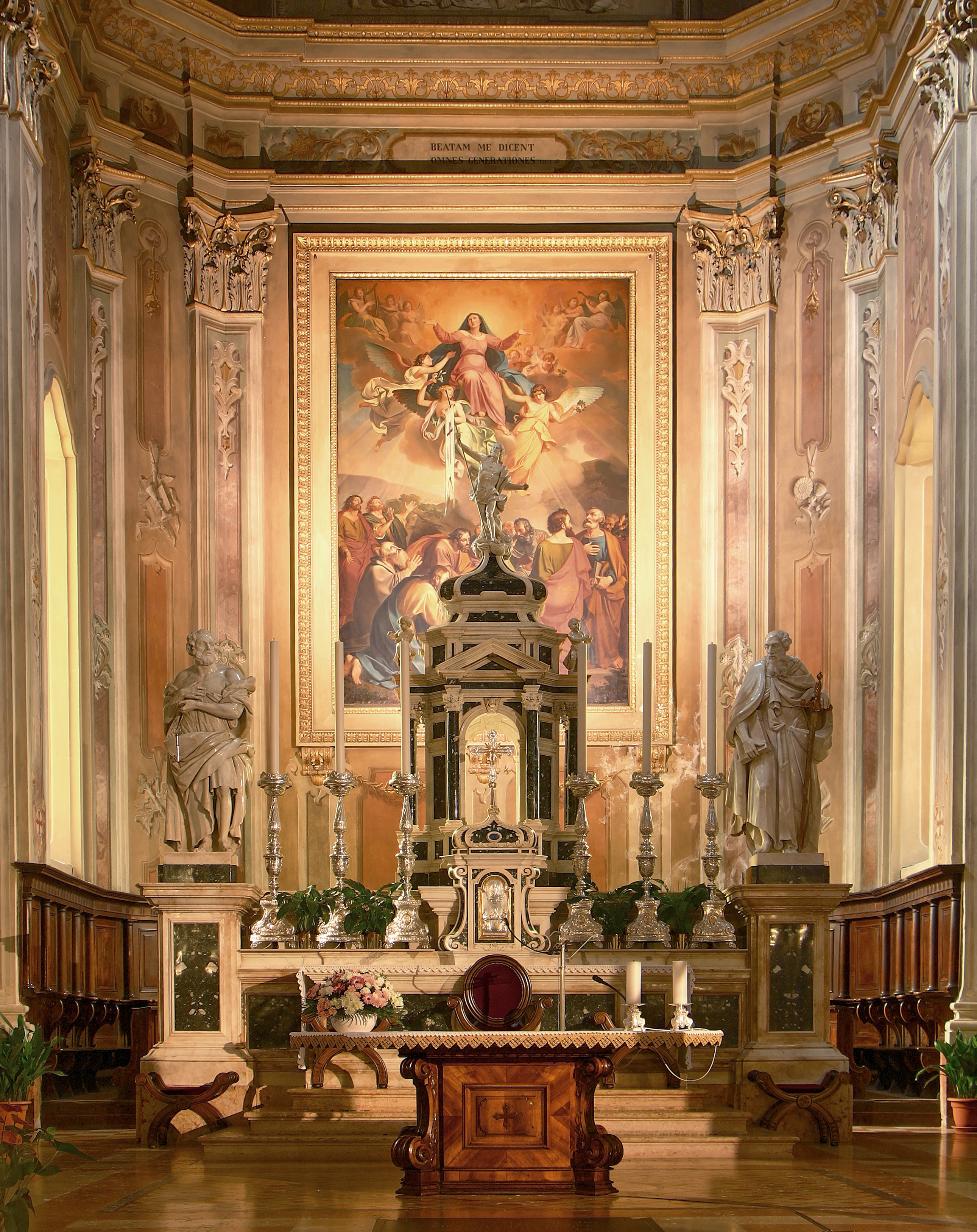 Chiesa Parrocchiale di Santa Maria Assunta, Riva del Garda, Italy. High altar. Created 1748 to 1753 by the sculptors Baroncini and Bombastoni from Rezzato. At the center the ciborium with the resurrected Christ. In the background the altarpiece "Assumption of Mary into Heaven" (1830) by Giuseppe Craffonara from Riva.